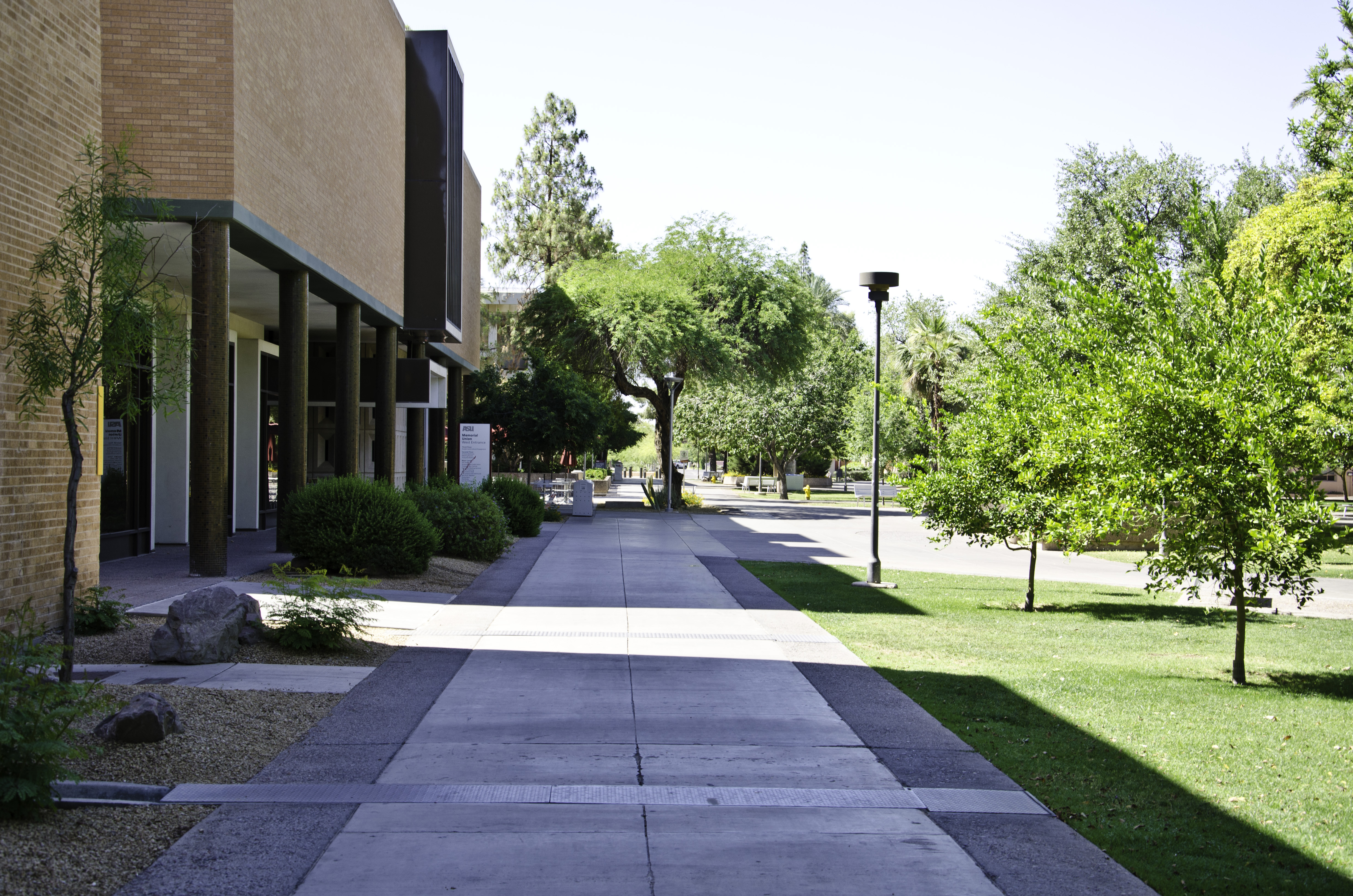 Architecture, Arizona State University, Tempe, AZ / David Pinter